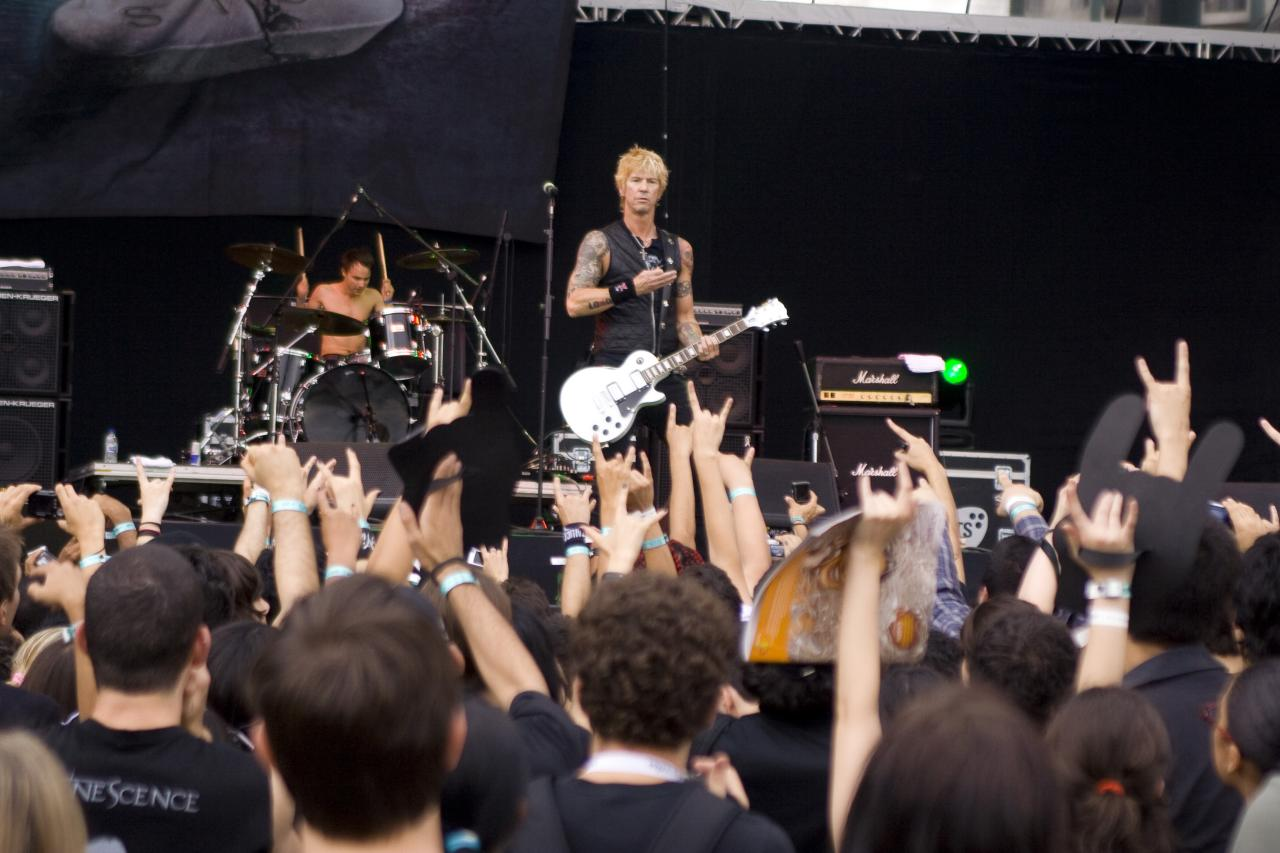 Duff McKagan's Loaded performing live at Maquinaria Festival in Sao Paulo, Brazil in 2009.